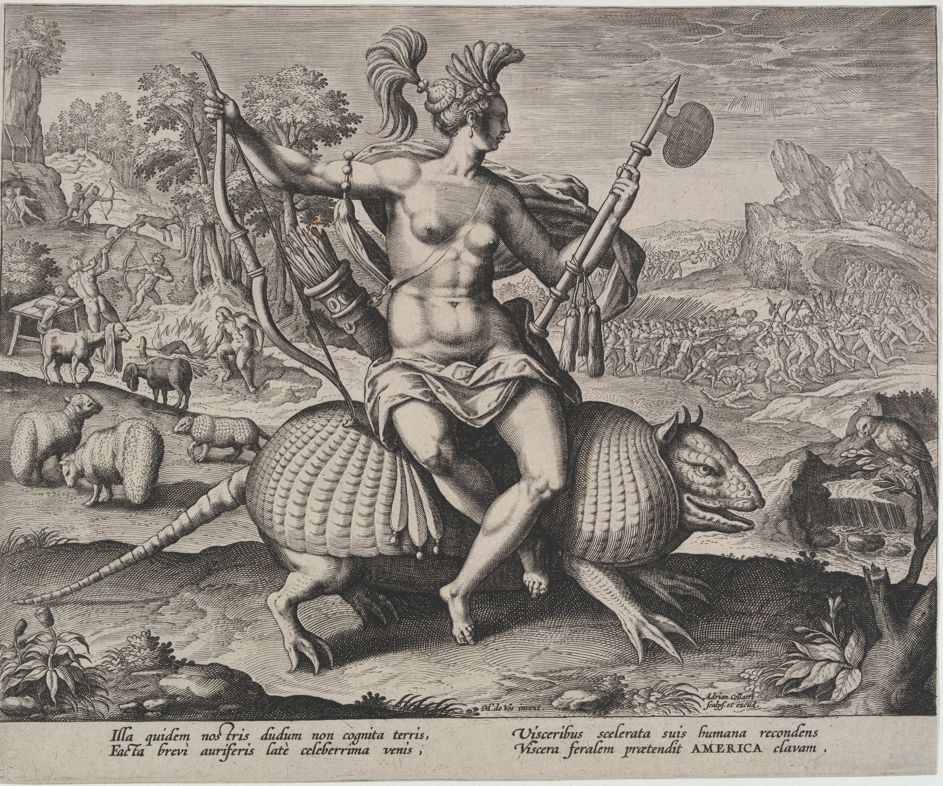 Print; Prints